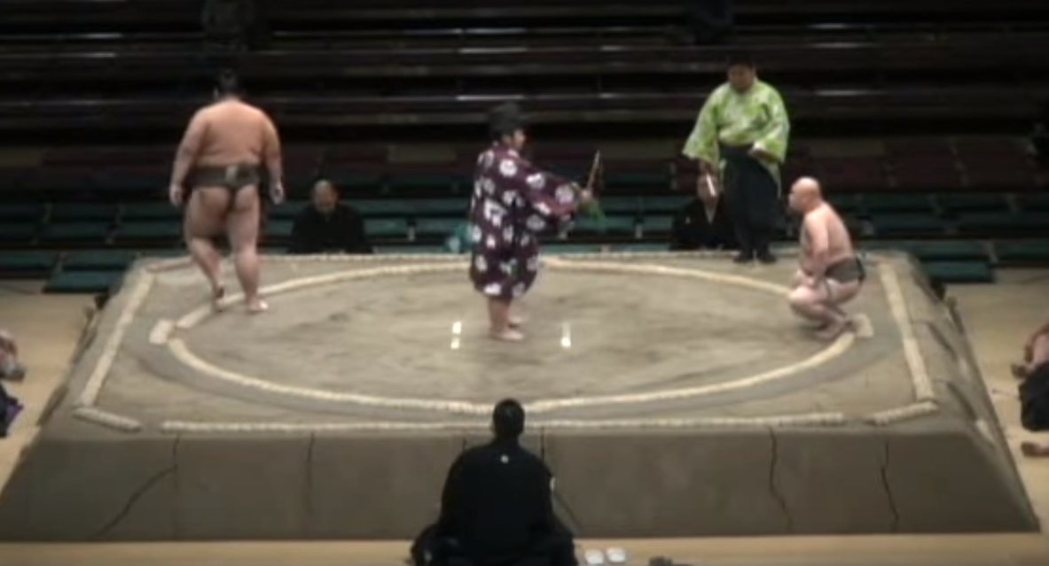 Taikomaru Yutaka